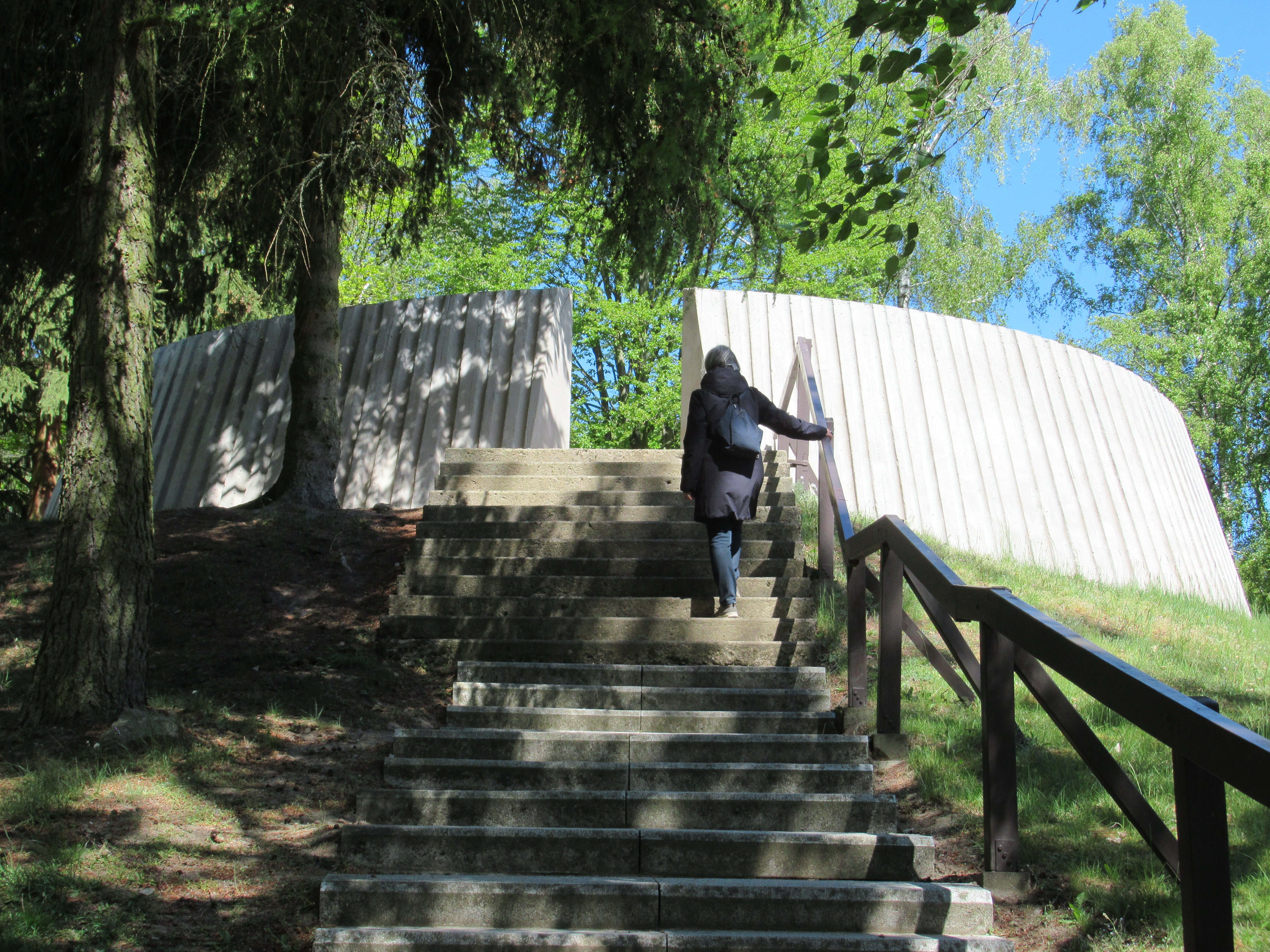 Golm Central Memorial